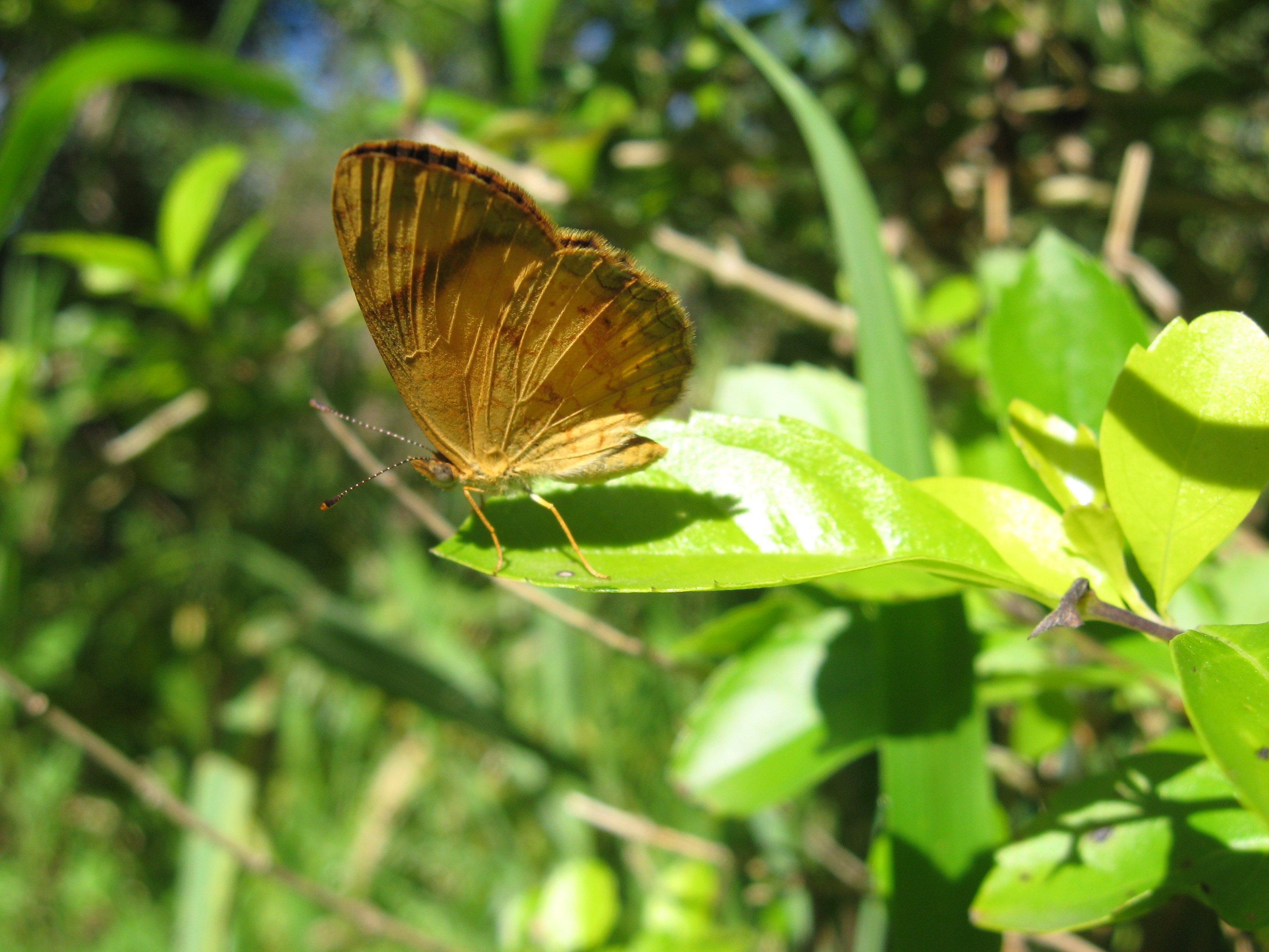 Nymphalidae butterfly Tegosa claudina in ventral view, photographed in Porto Alegre, Southern Brazil